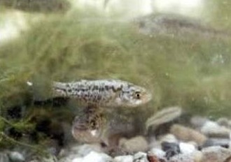 Empetrichthys latos USFWS photo